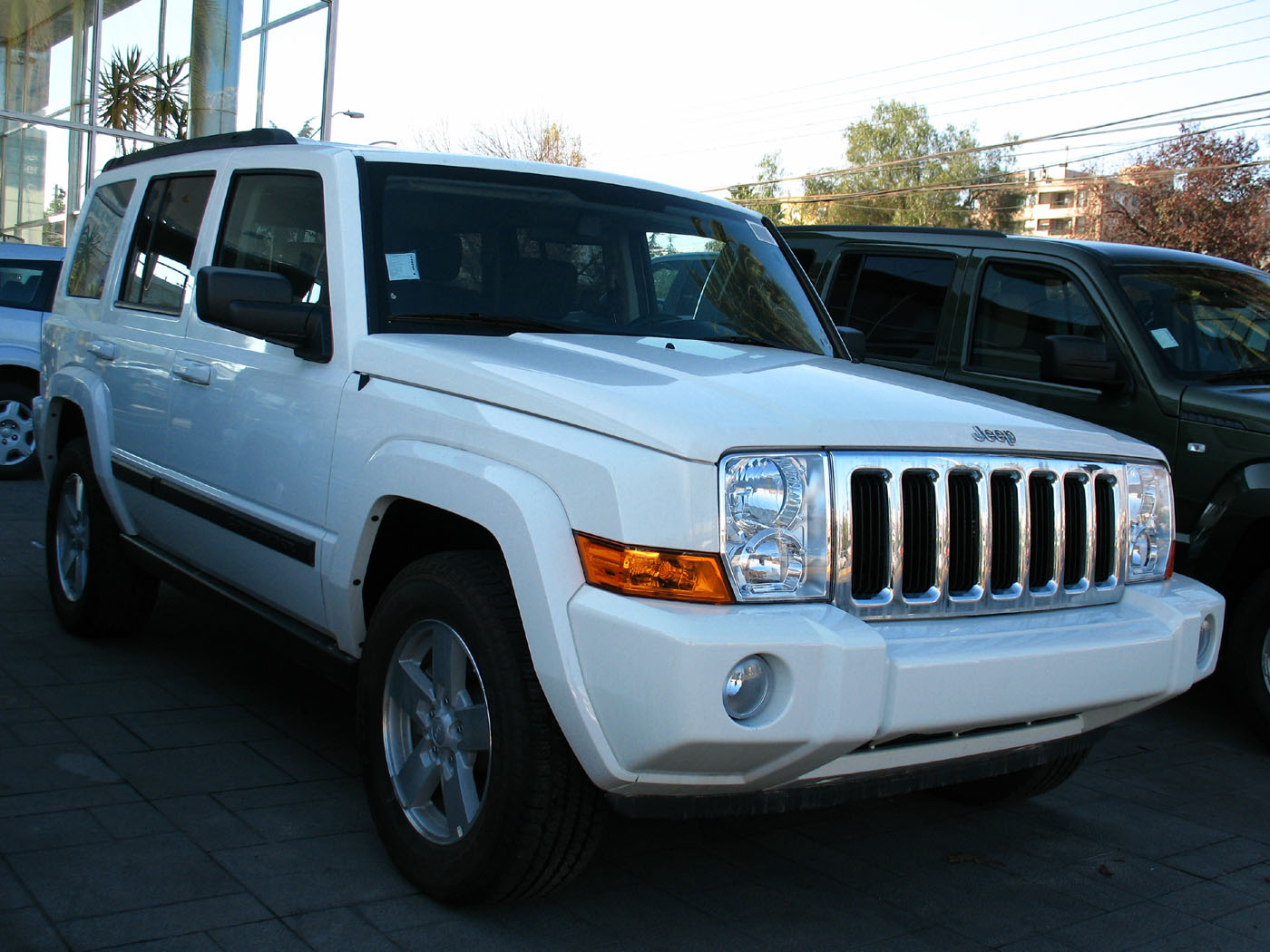 Jeep Commander 3.7L Sport 2009